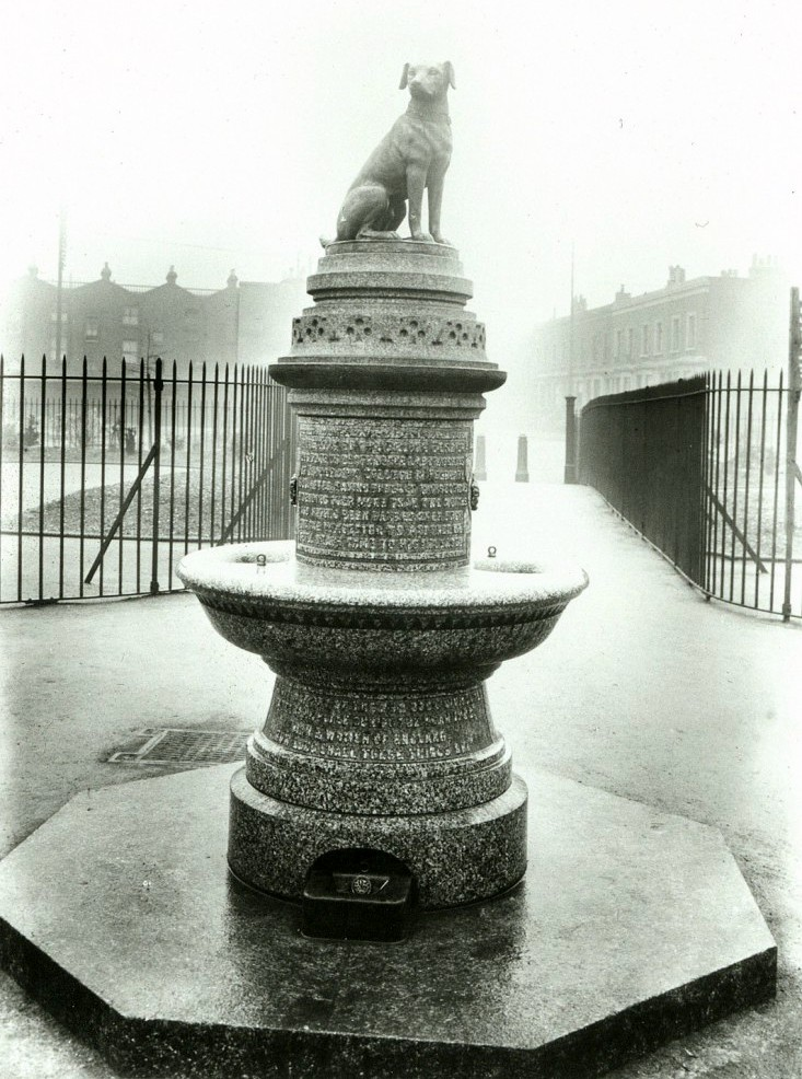 Statue created by Joseph Whitehead, erected in 1906 in Battersea, London, in memory of the Brown Dog. The statue stood in Battersea from 1906 until 1910.